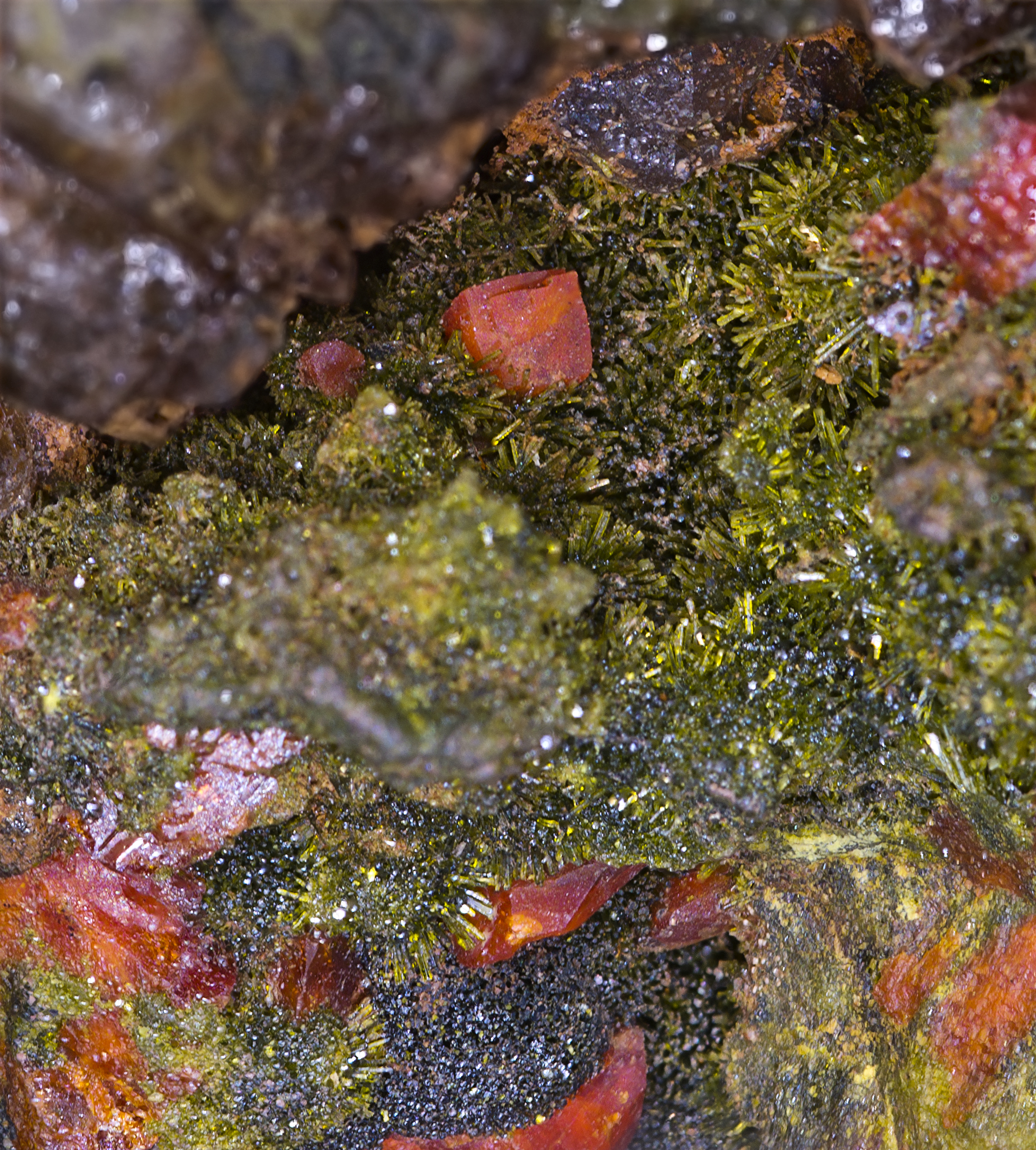 Crocoite, Pyromorphite Locality: Berezovskoe Au Deposit (Berezovsk Mines), Berezovskii (Berezovskii Zavod), Ekaterinburg (Sverdlovsk), Ekaterinburgskaya (Sverdlovskaya) Oblast, Middle Urals, Urals Region, Russia - Deposit topotype for crocoite Size of view 1.5 cm